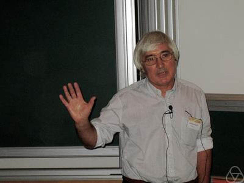 Sylvestre Gallot, Bures-sur-Yvette 2007